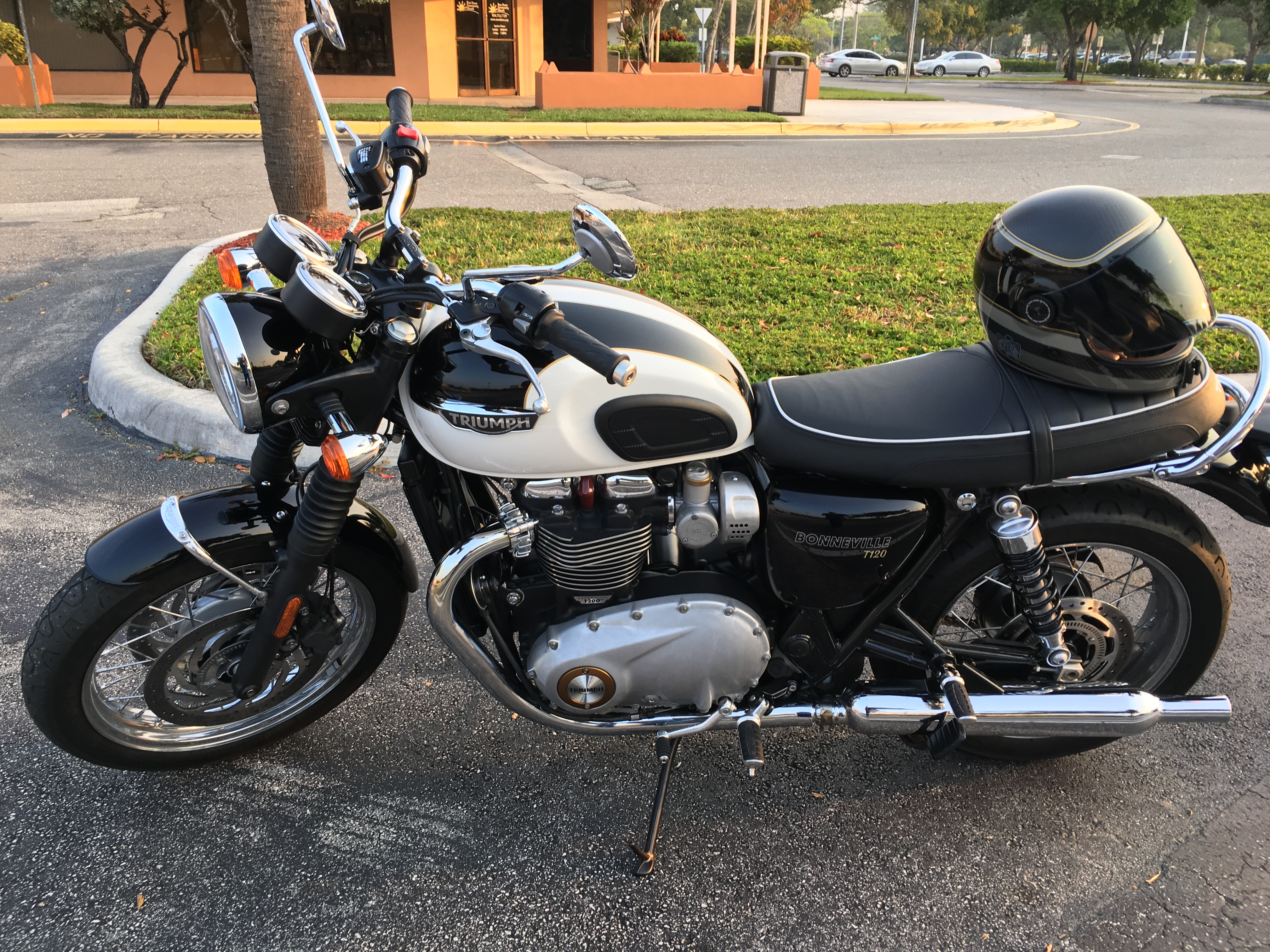 2017 Bonneville T120 Modern Classic in Jet Black/Pure White.